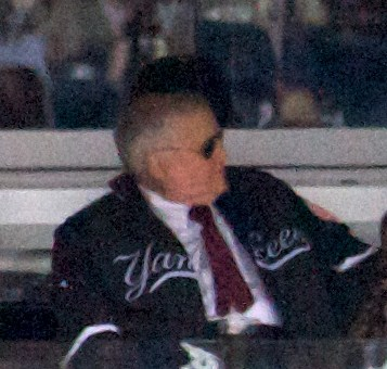 George Steinbrenner